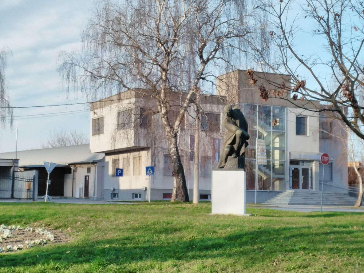 Josip Kozarac monument in Vinkovci.